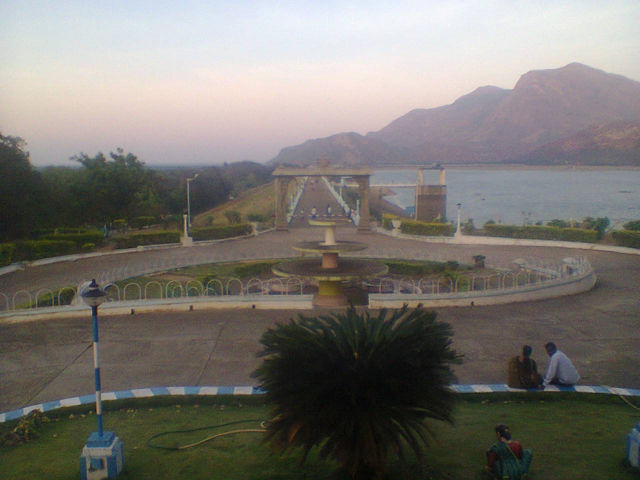 This is the view of Azhiyar dam from the Azhiyar bungalow where the film 'Kadhalikka Neramillai' was shot.